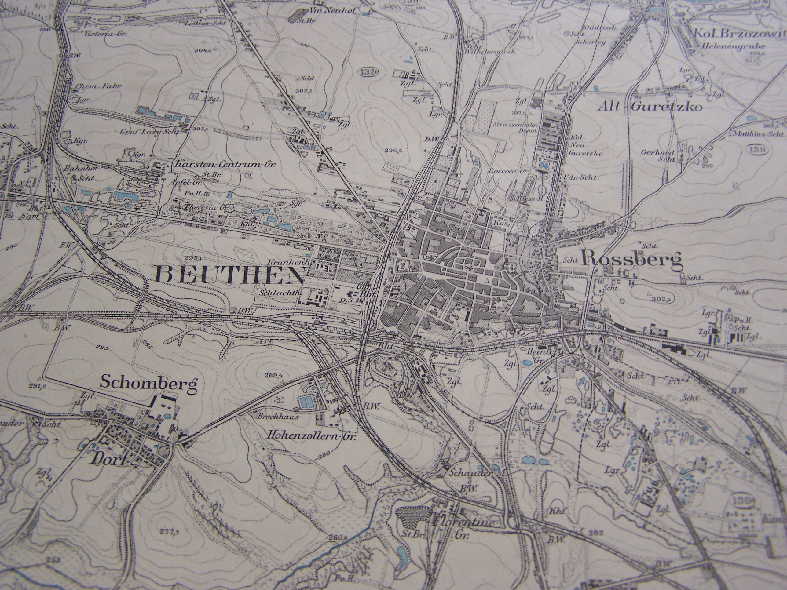 An old map of Bytom.